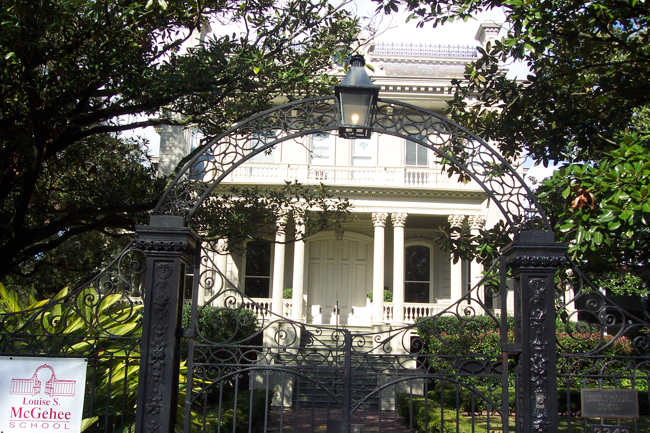 The Louise S. McGehee School is an all-girls secular private school in the Garden District in New Orleans, Louisiana, United States.